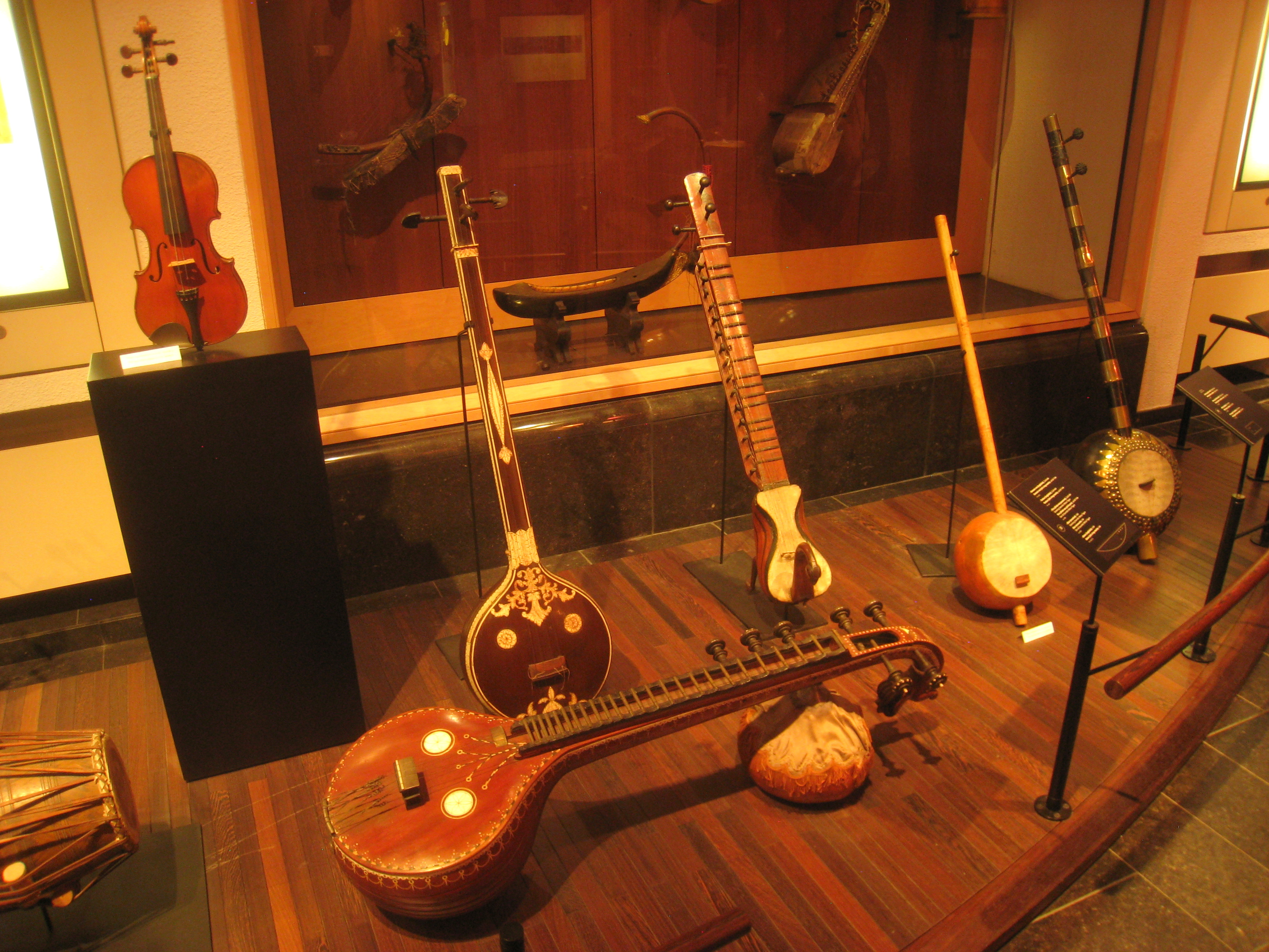 Stringed instruments in the Musical Instrument Museum, Brussels, Belgium.